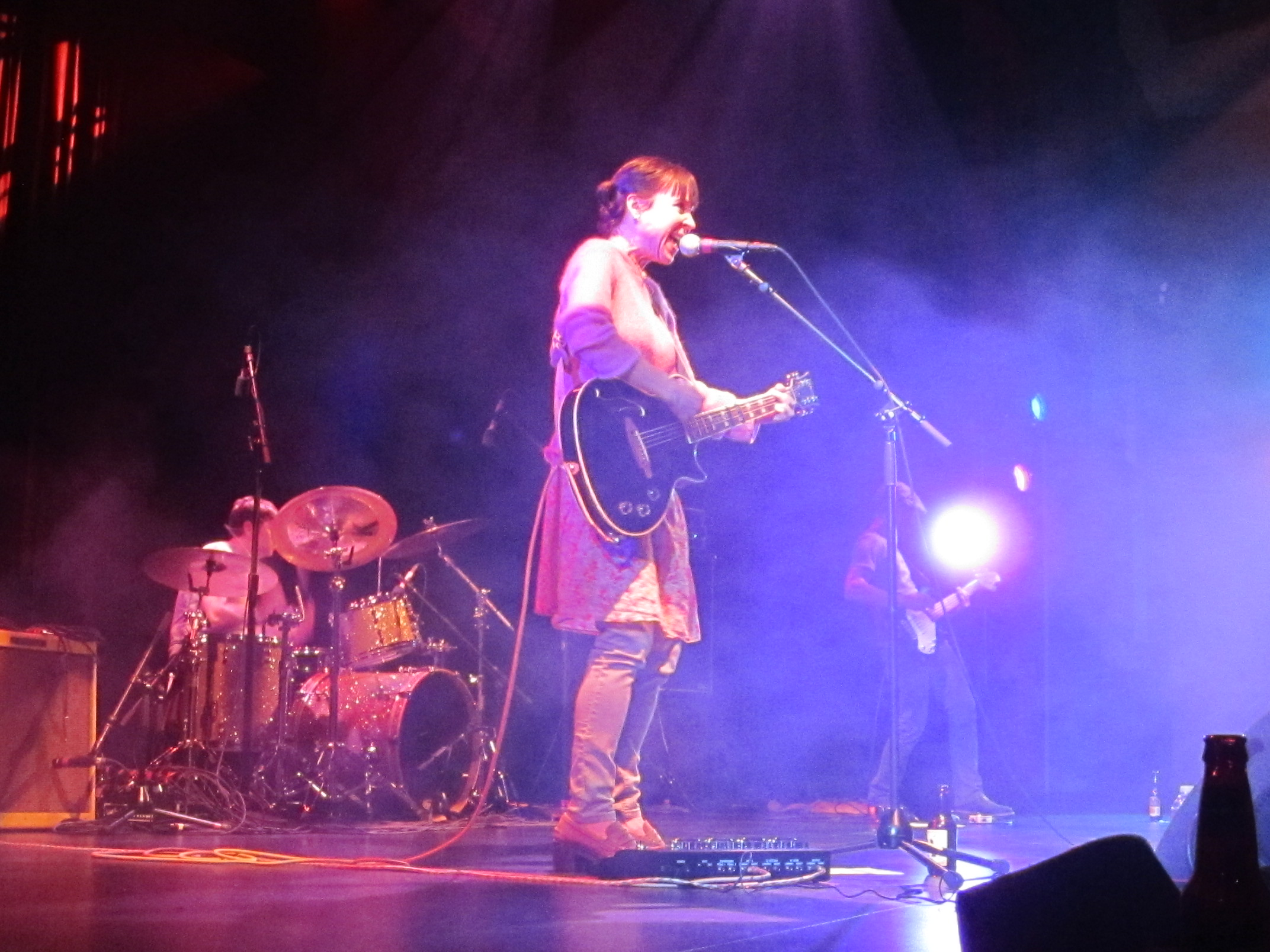 Throwing Muses play at the JCCSF for the San Francisco Noise Pop Festival, 2014. Pictured: David Narcizo, Kristin Hersh, Bernard Georges.